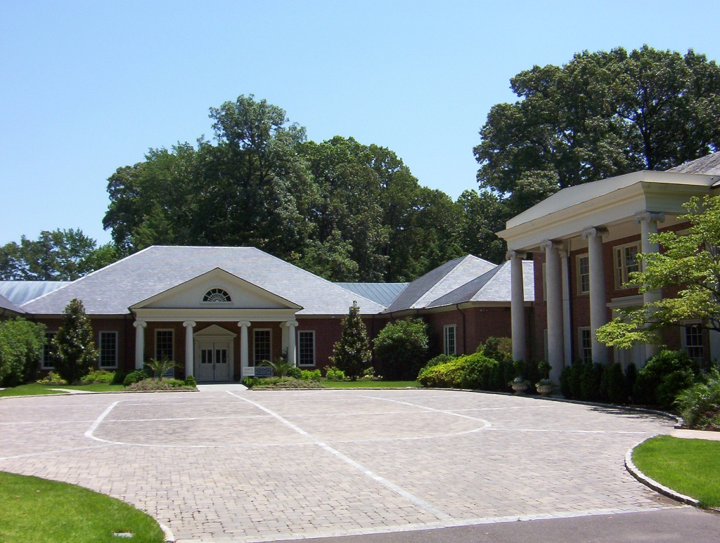 Dixon Gallery and Gardens in Memphis, Tennessee